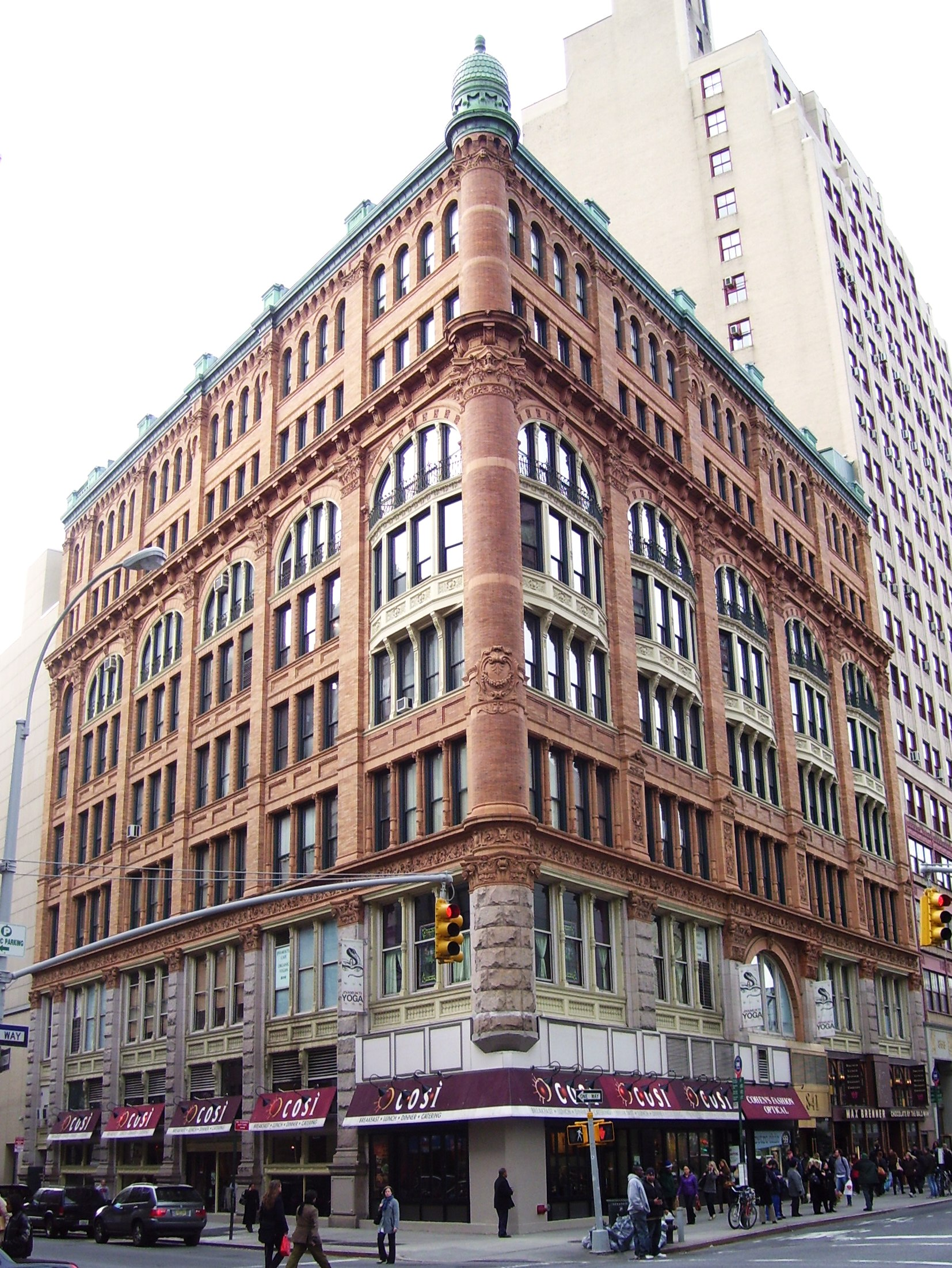 The Roosevelt Building at 839-841 Broadway on the corner of East 13th Street, near Union Square, was named after Cornelius Roosevelt, the grandfather of Theodore Roosevelt, who lived on this block in the middle of the 18th century. The building was designed by Stephen Decatur Hatch and built in 1893.